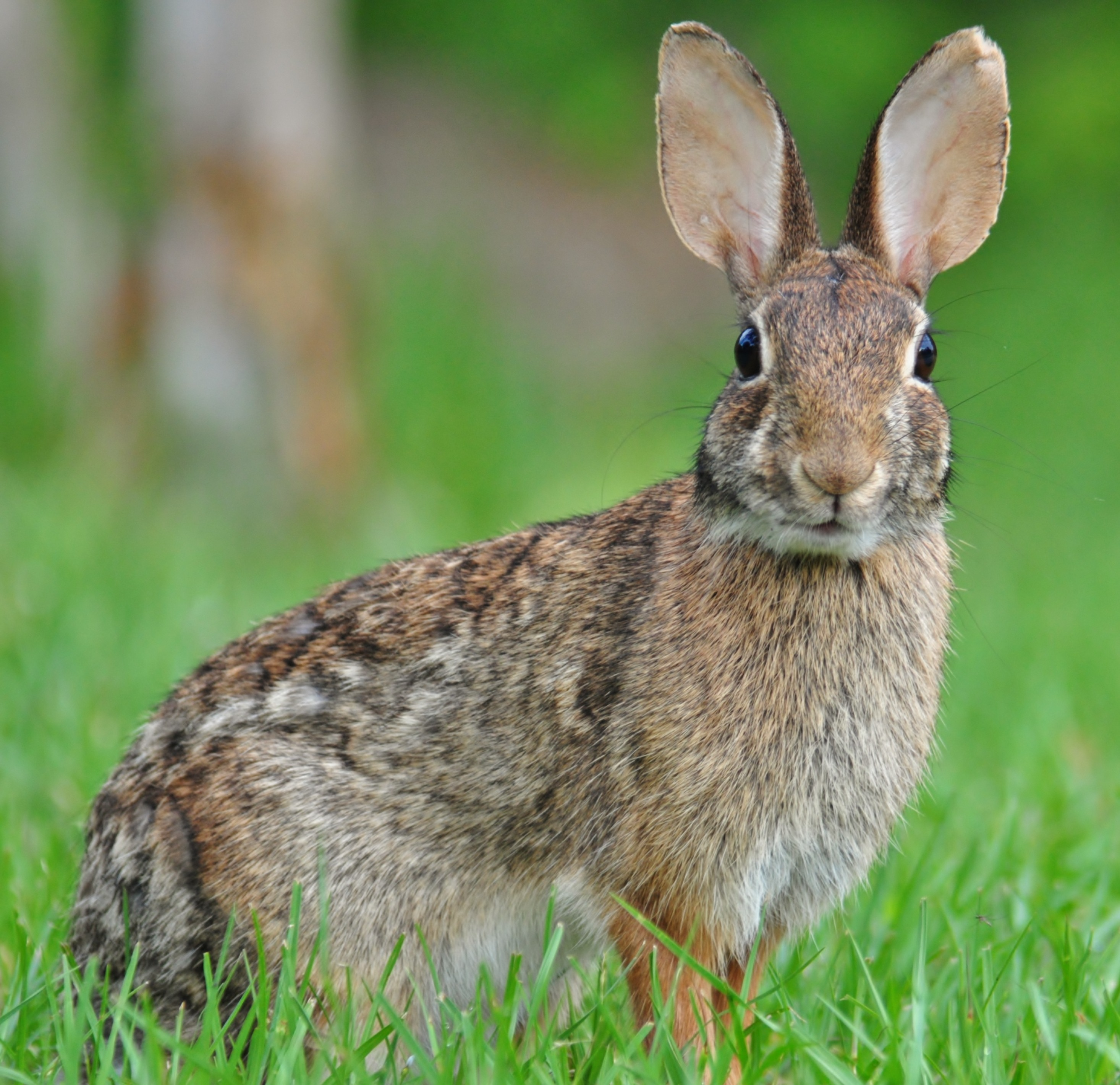 Taken by Gareth Rasberry, Huntington Beach State Park, Murrells Inlet, South Carolina, USA